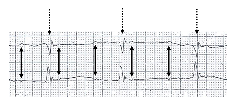 Two EKG strips obtained in the same patient simultaneously (each represents a different vector of the heart’s electrical conduction), demonstrating complete AV block (also called 3rd degree heart block). The solid arrows point to P waves, representing atrial electrical conduction originating from the sinus node. The dashed arrows denote electrical conduction in the ventricles (QRS complexes). Note that the P waves are not related to the QRS complexes, demonstrating that the atria are electrically disconnected from the ventricles. The QRS complexes represent an escape rhythm arising from the ventricle.